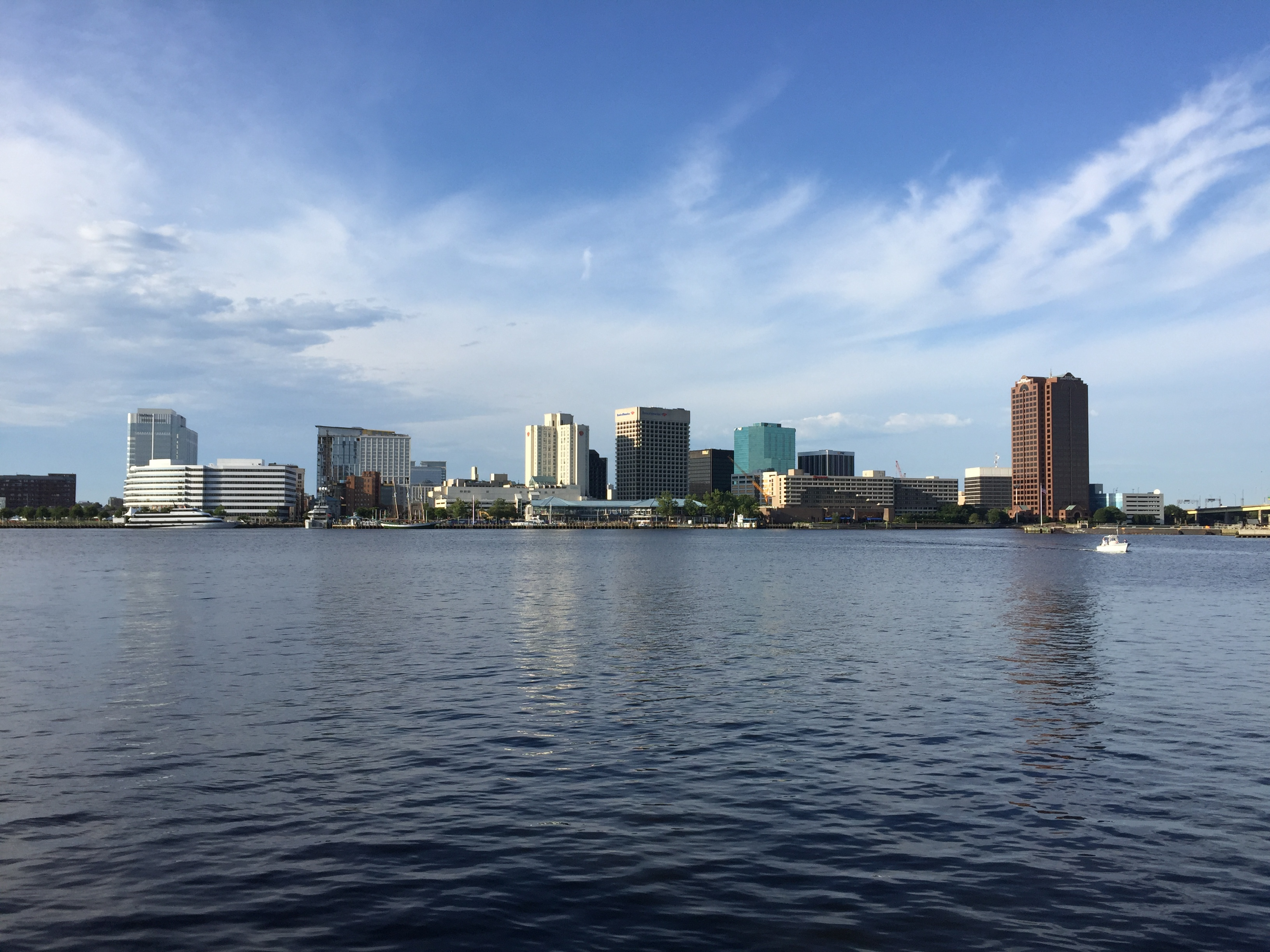 Skyline of Norfolk, Virginia from across the Elizabeth River in 2016